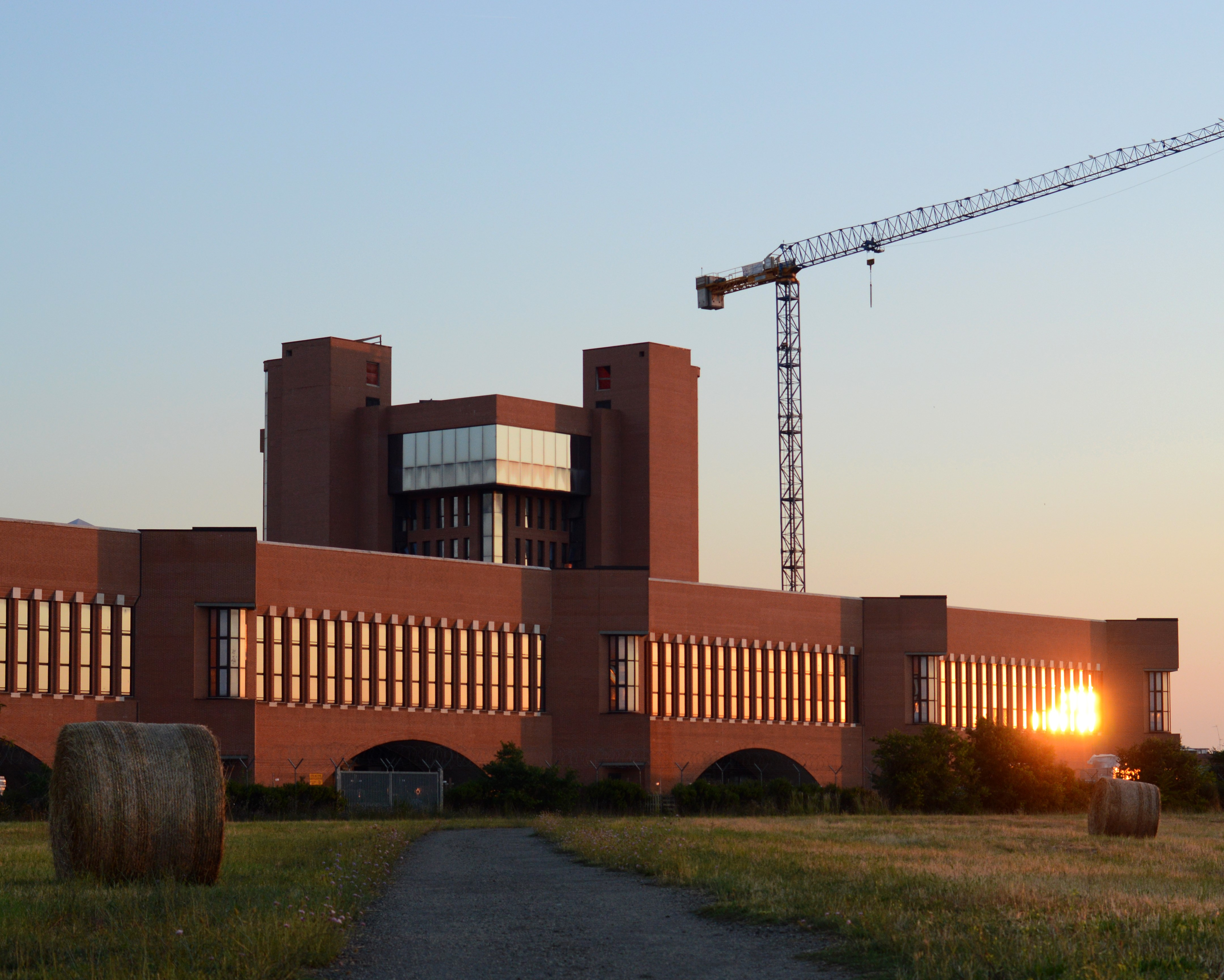 Palazzo Guidoni, new headquarter of the general administration and the procurement department (SGD/DNA) of the Italian Ministry of Defence, still under construction, seen from Centocelle Park, Rome. This is a photo of a monument which is part of cultural heritage of Italy.